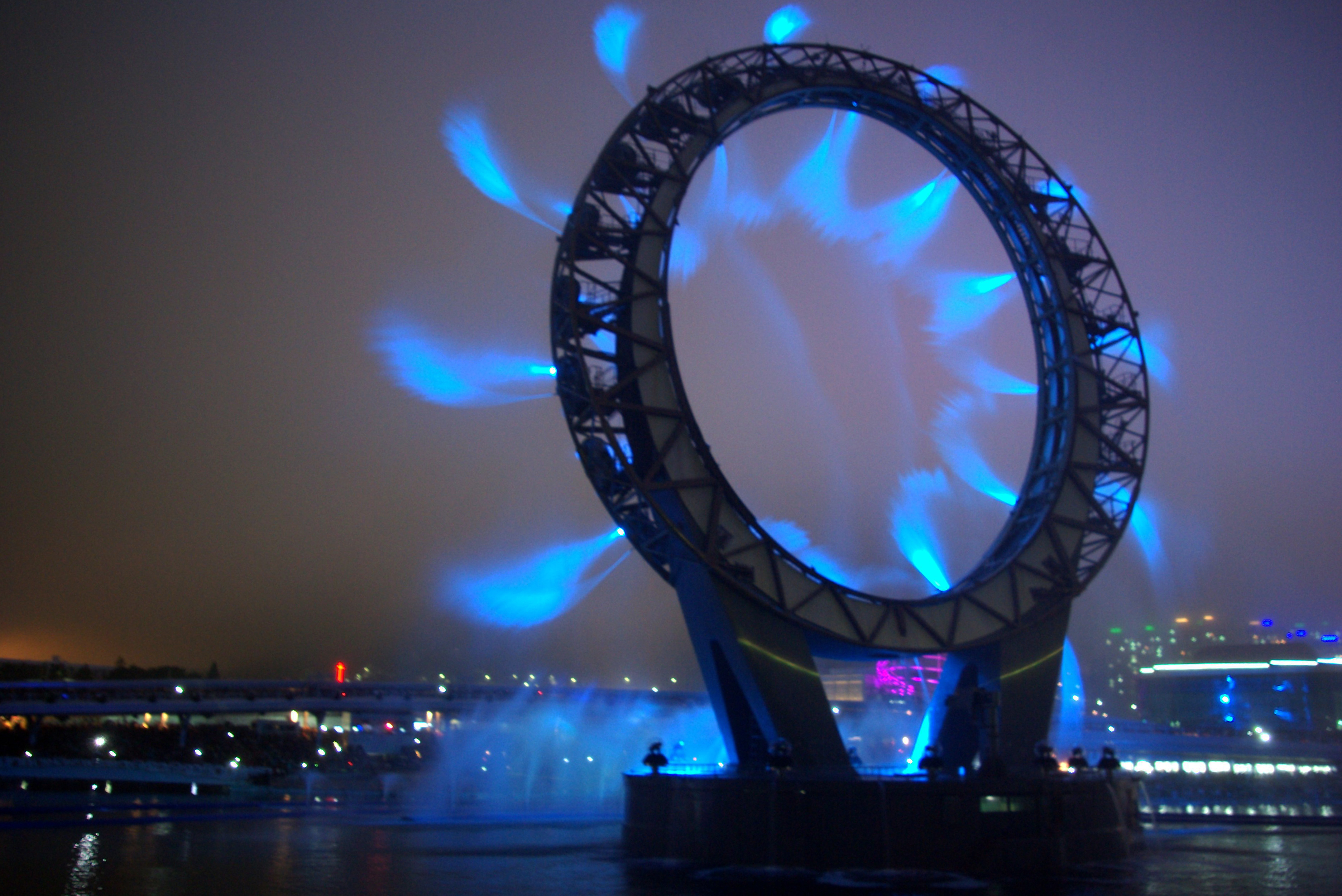 2012 Yeosu Expo Sketch at Yeosu Expo Ministry of Culture, Sports and Tourism Korea Culture and Information Service (KOCIS Photo / Kang Giho) 2012 여수엑스포 여수엑스포 스케치 2012.07. 문화체육관광부 해외문화홍보원